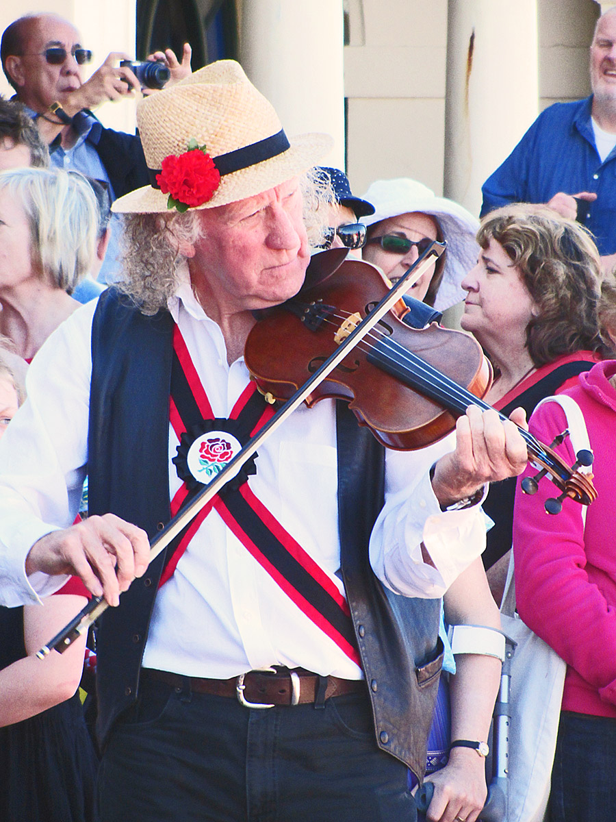 With the Morris Dancers